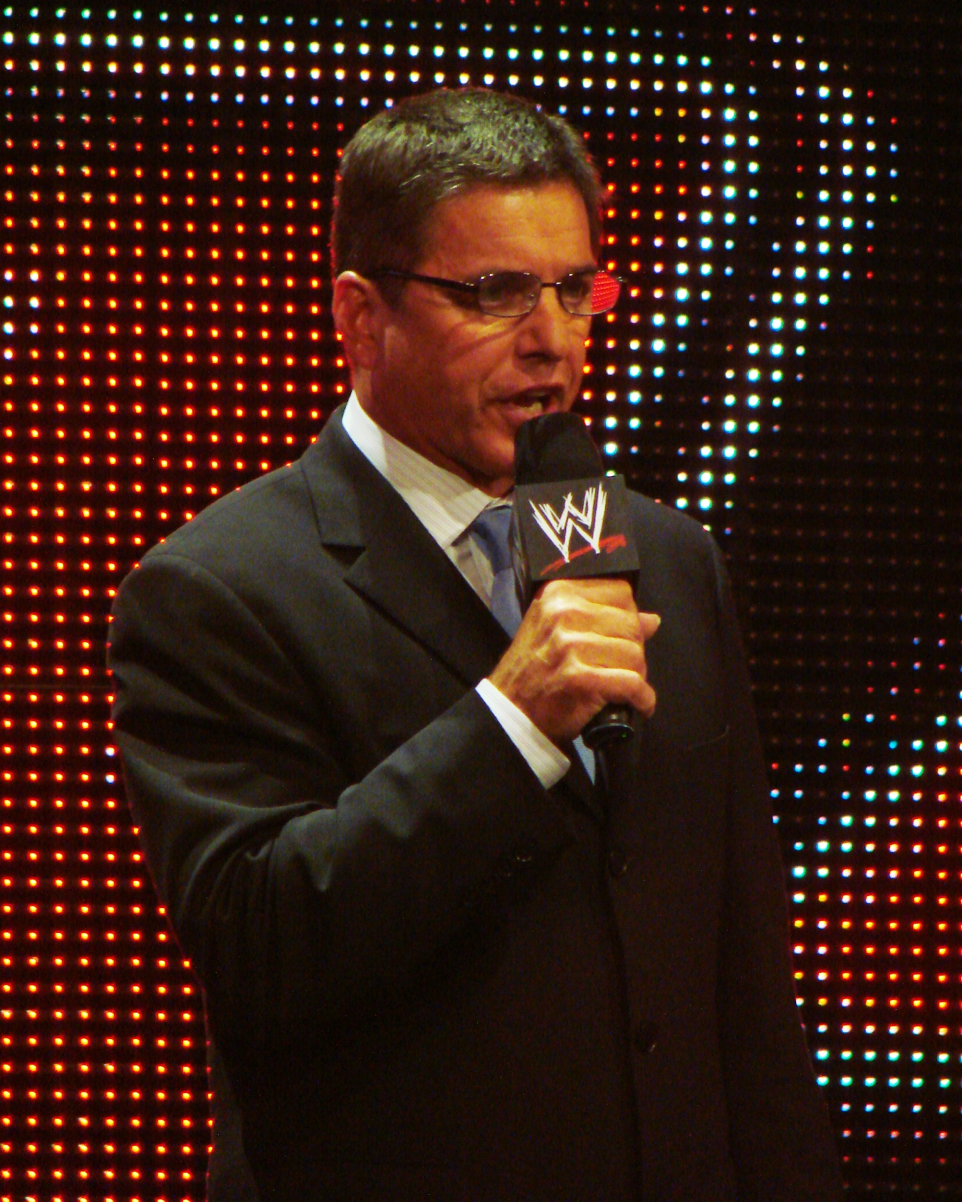 Mike Adamle at WWE Raw. Allstate Arena; Rosemont, Illinois; Taken by myself. Rotated, cropped, and brightened.